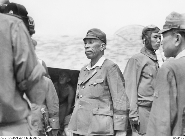 LABUAN ISLAND, NORTH BORNEO. 1945-09-10. THE SUPREME JAPANESE COMMANDER IN BORNEO, LIEUTENANT GENERAL MASAO BABA (CENTRE), AT LABUAN AIRSTRIP ON HIS WAY TO SIGN THE OFFICIAL SURRENDER DOCUMENT AT 9TH DIVISION HEADQUARTERS.